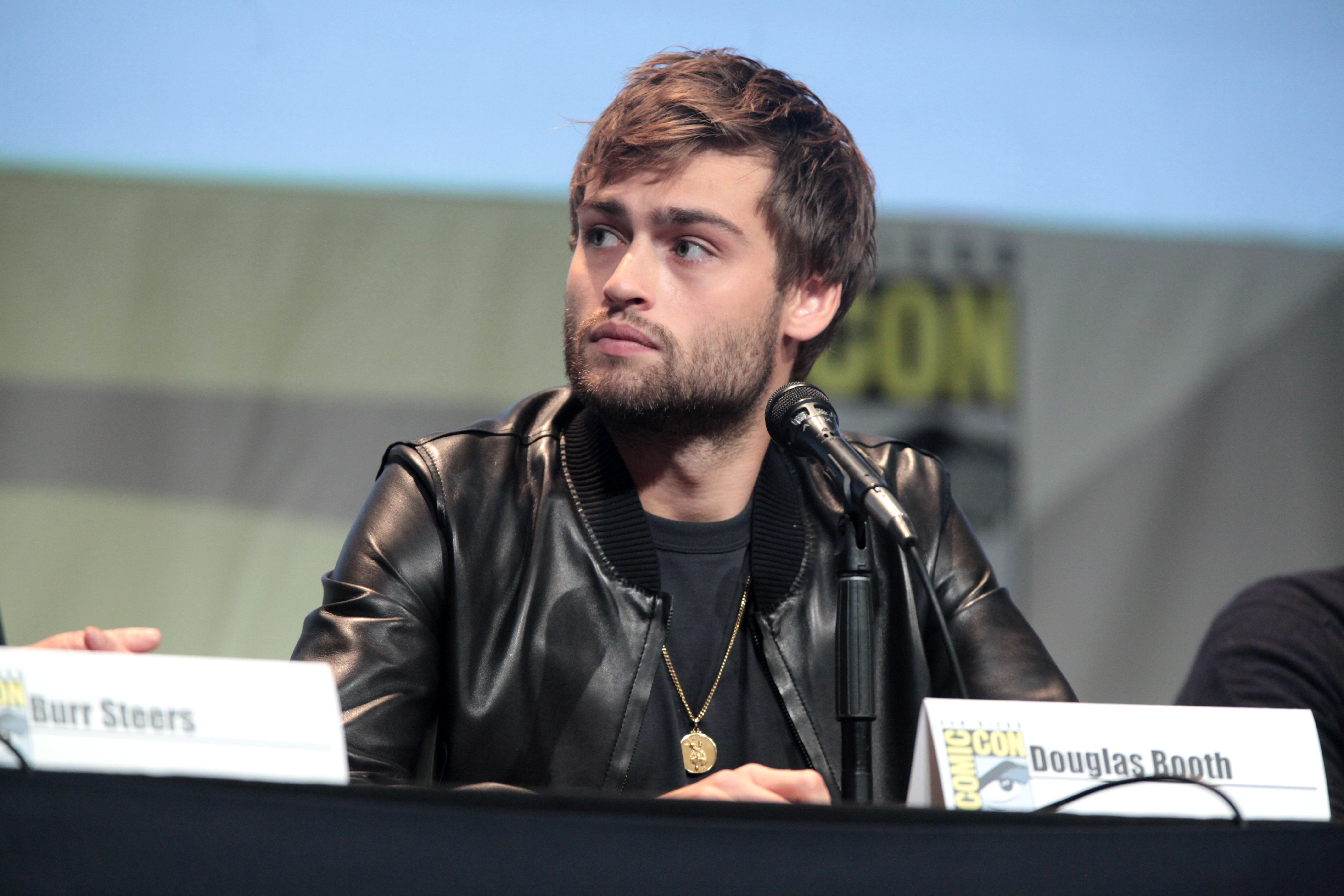 Douglas Booth speaking at the 2015 San Diego Comic Con International, for "Pride and Prejudice and Zombies", at the San Diego Convention Center in San Diego, California.